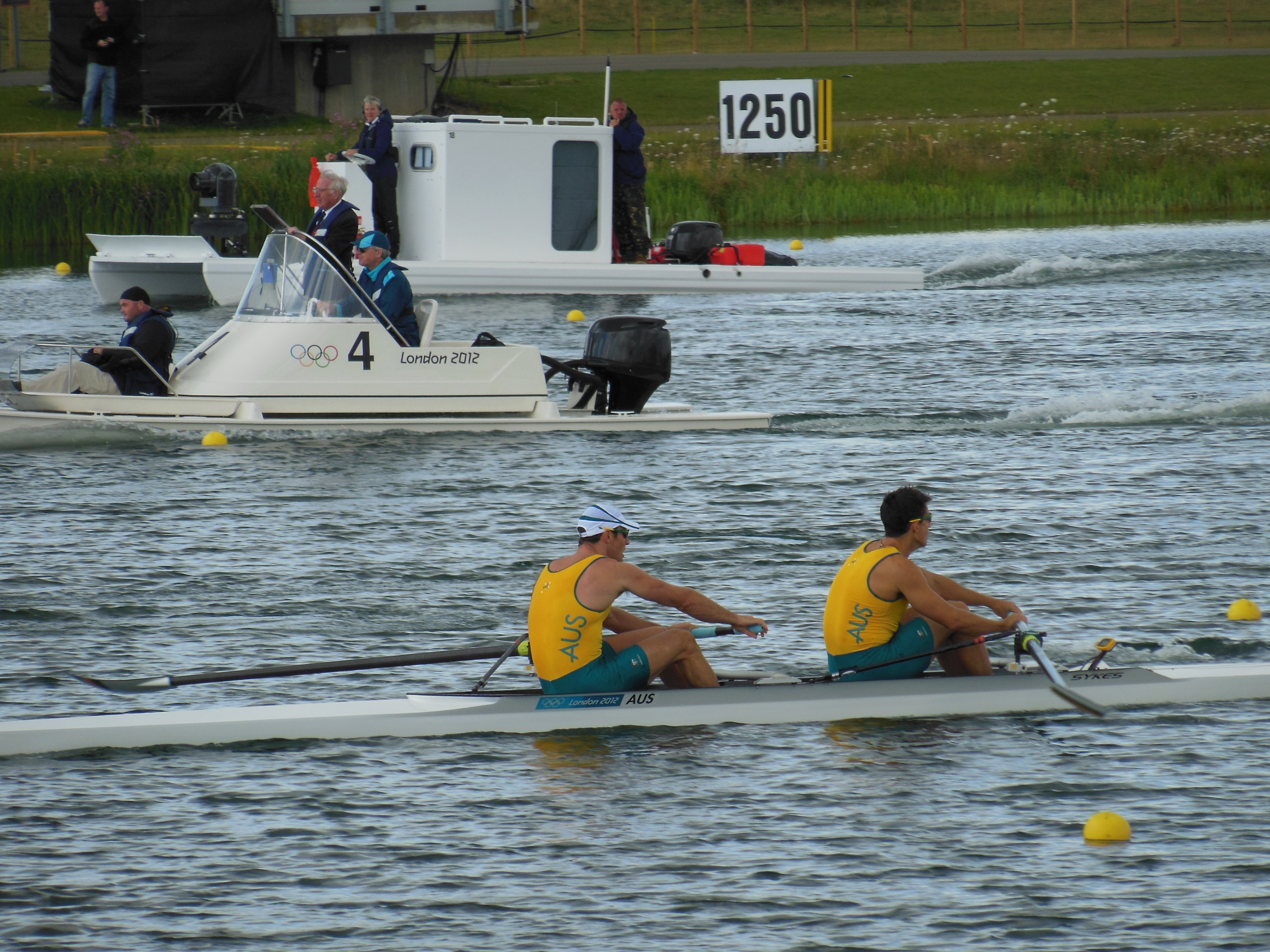 01 ! Eric Murray Hamish Bond New Zealand 6:16.65 02 ! Germain Chardin Dorian Mortelette France 6:21.11 03 ! George Nash William Satch Great Britain 6:21.77 4 Niccolo Mornati Lorenzo Carboncini Italy 6:26.17 5 James Marburg Brodie Buckland Australia 6:29.28 6 David Calder Scott Frandsen Canada 6:30.49